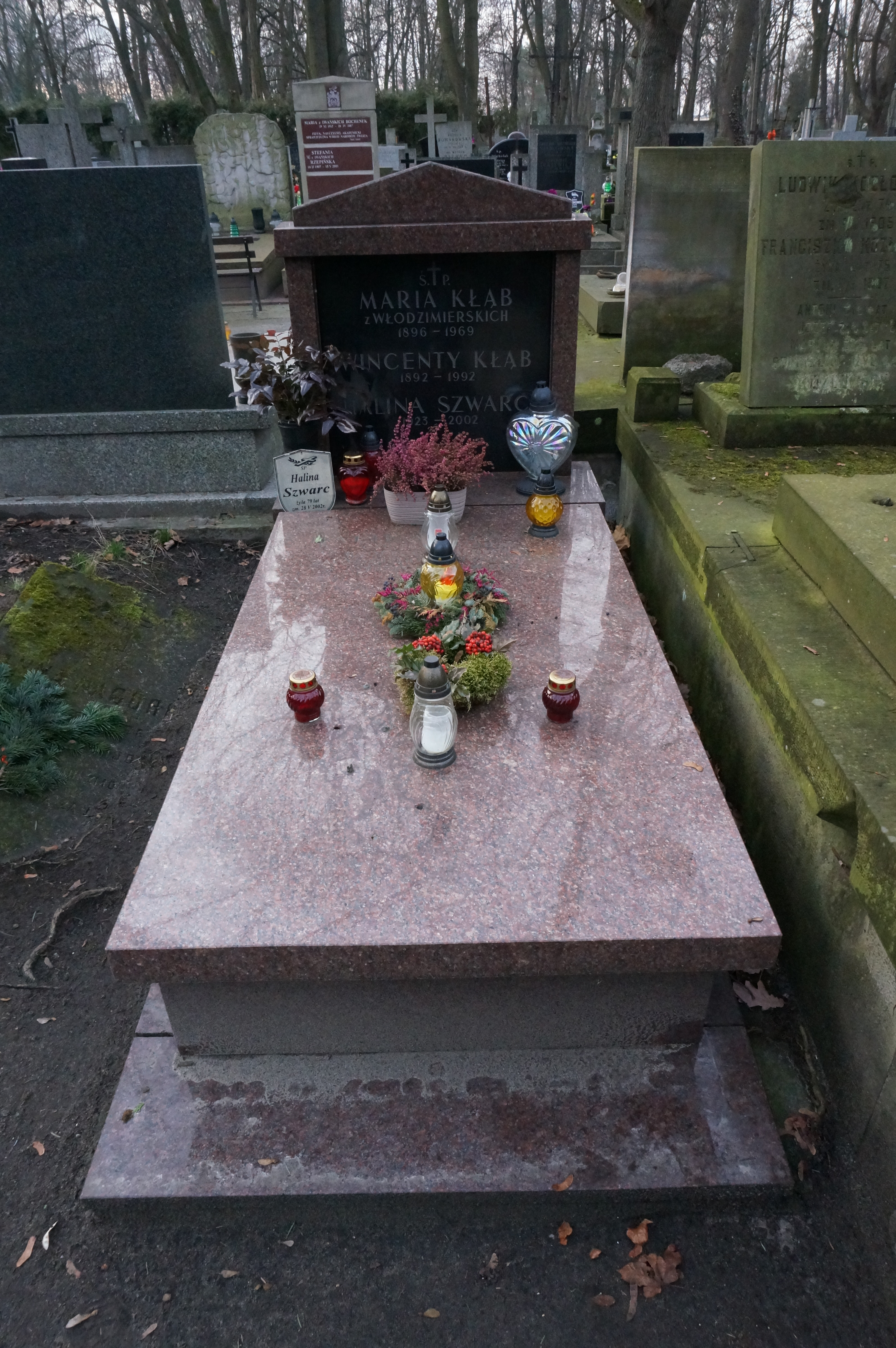 The grave of Halina Szwarc at the Powązki Cemetery (section 276, row 5, grave 3)